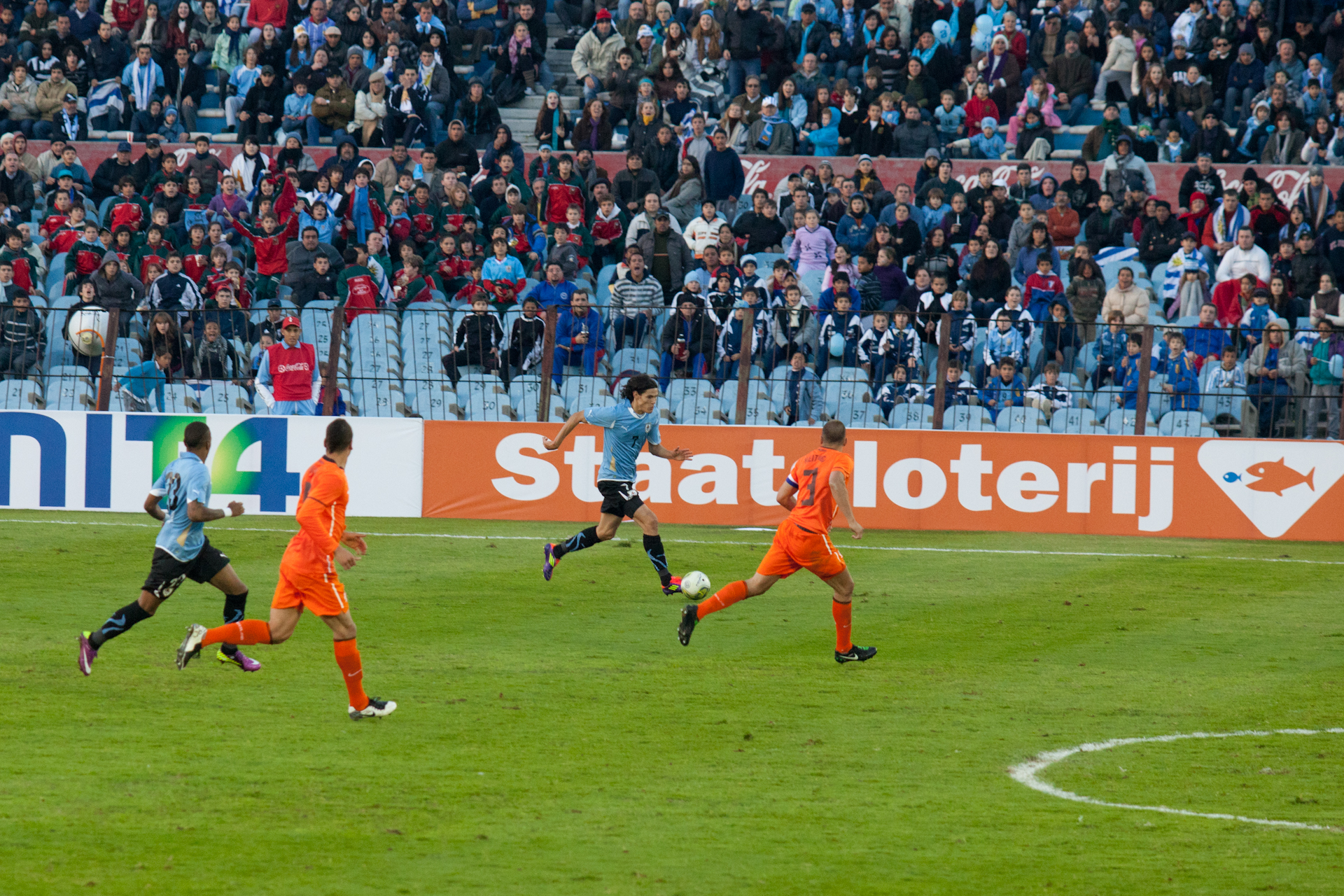 Uruguay vs the Netherlands friendly game at the Centenario Stadium in Uruguay.